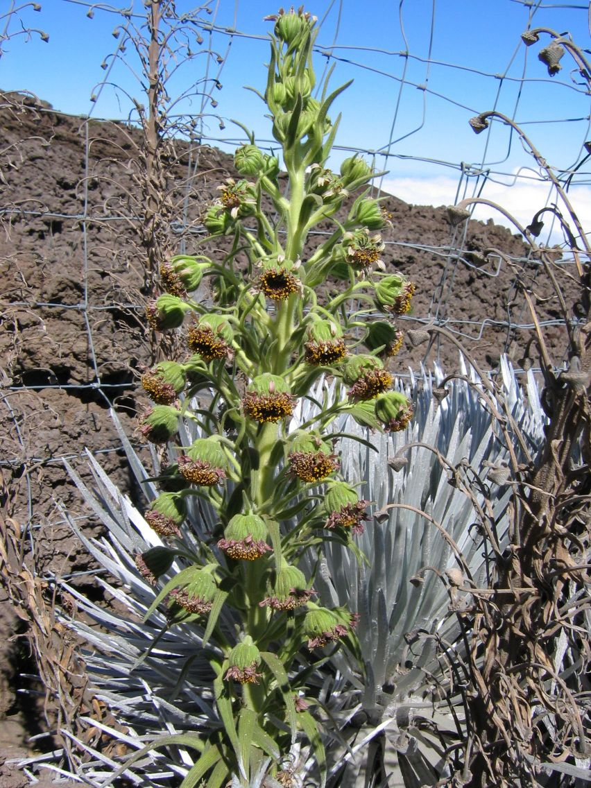 Mauna Kea silversword (Argyroxiphium sandwicense sandwicense), in a small exclosure along the Mauna Kea summit road.